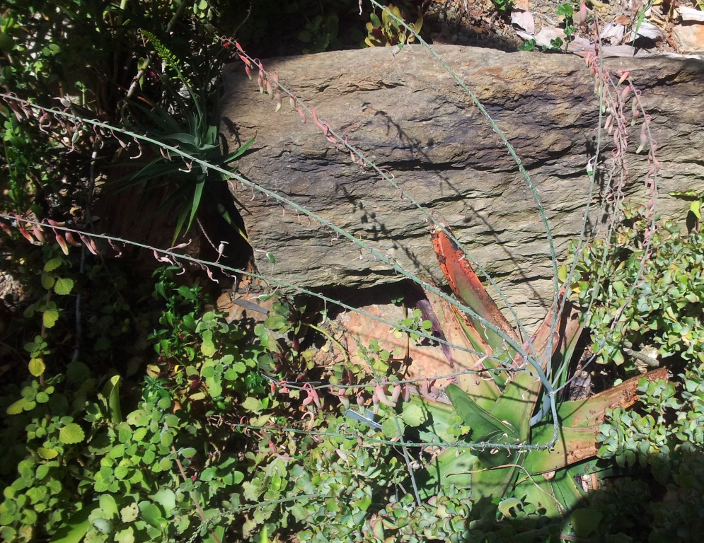 Giant Gasteria excelsa in flower - Kirstenbosch